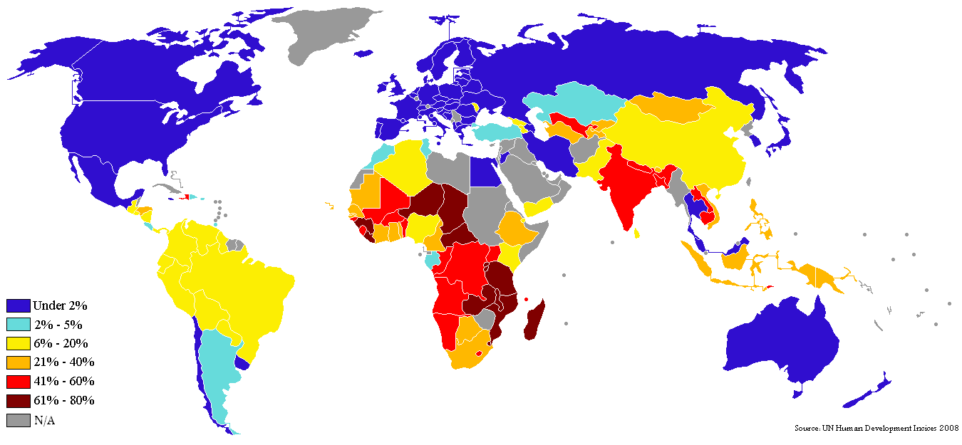 World map showing percent of population living on less than $1.25 (ppp) per day using the latest data from 2000-2006. ade, data from the UN Human Development statistics 2008 [1]